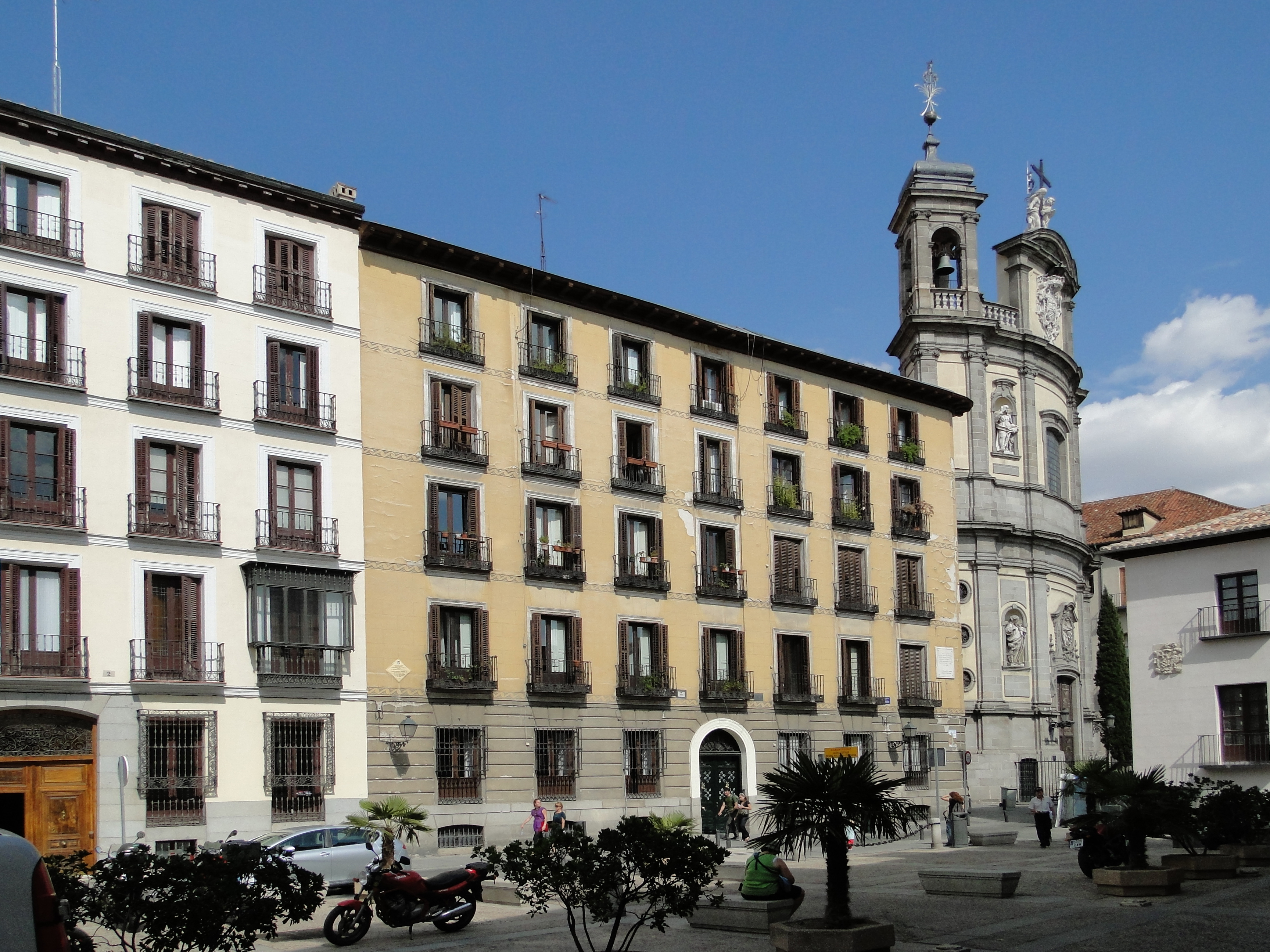 Plaza del Cordon and the St. Michael's Basilica at the right, Madrid, Spain